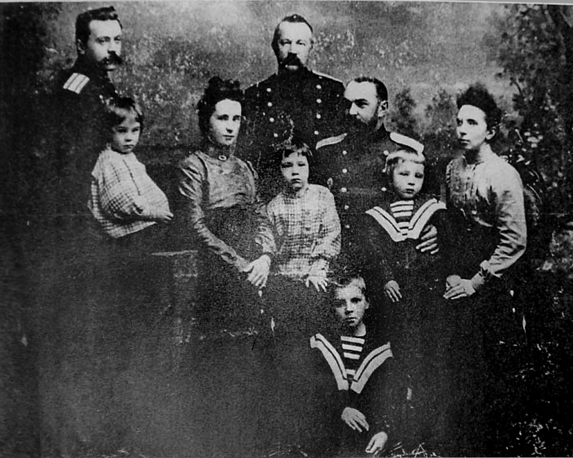 Golitsyns. 1902